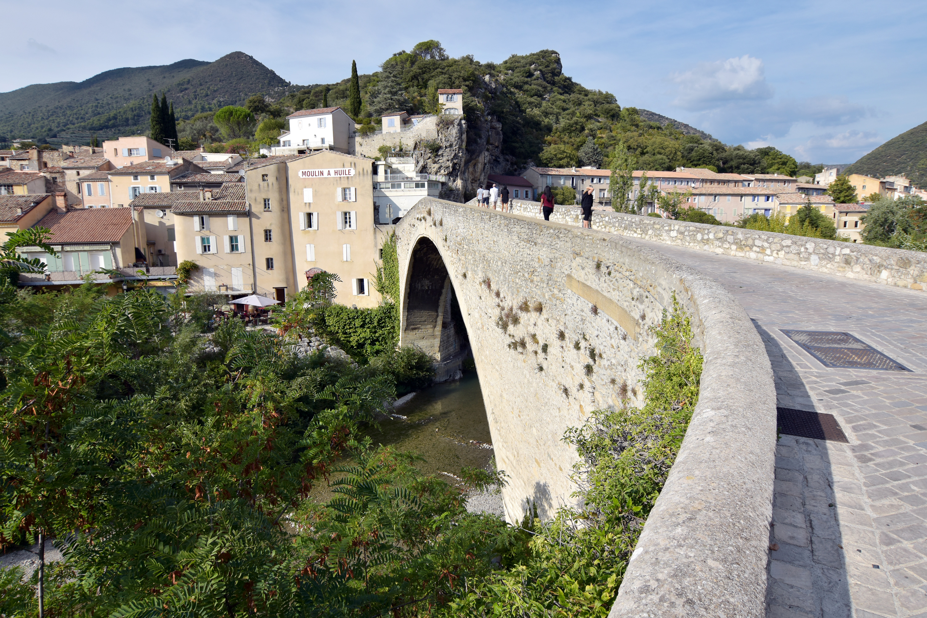 Nyons